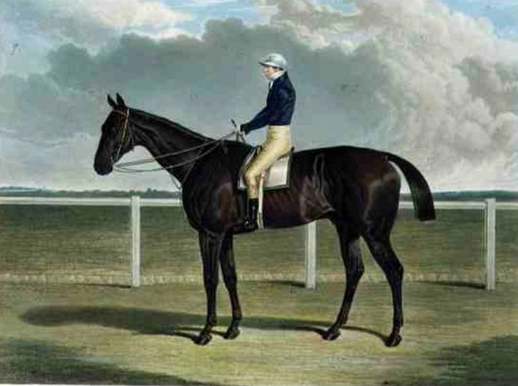 Painting of the British racehorse Margrave ca 1832. By John Frederick Herring, Sr. (1795-1865). Author dead for 147 years.